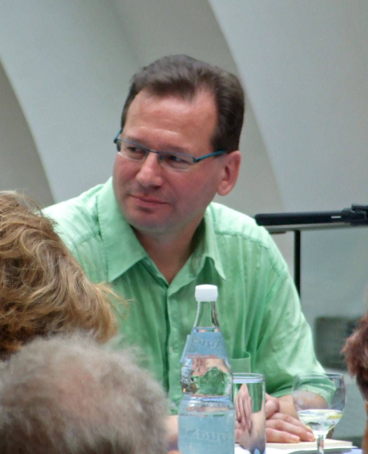 Wolfgang Brenner, german novelist, Frankfurt am Main 2008